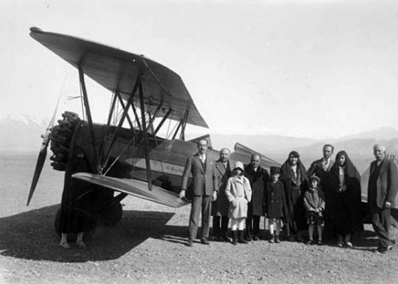 Hassan Mostowfi al-Mamalek in his private airport with family in Doshan Tappeh, Tehran